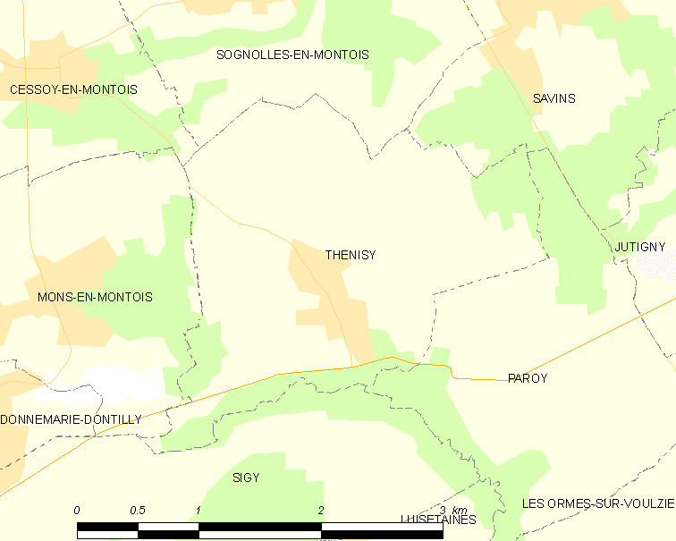 Map of French municipality Thénisy